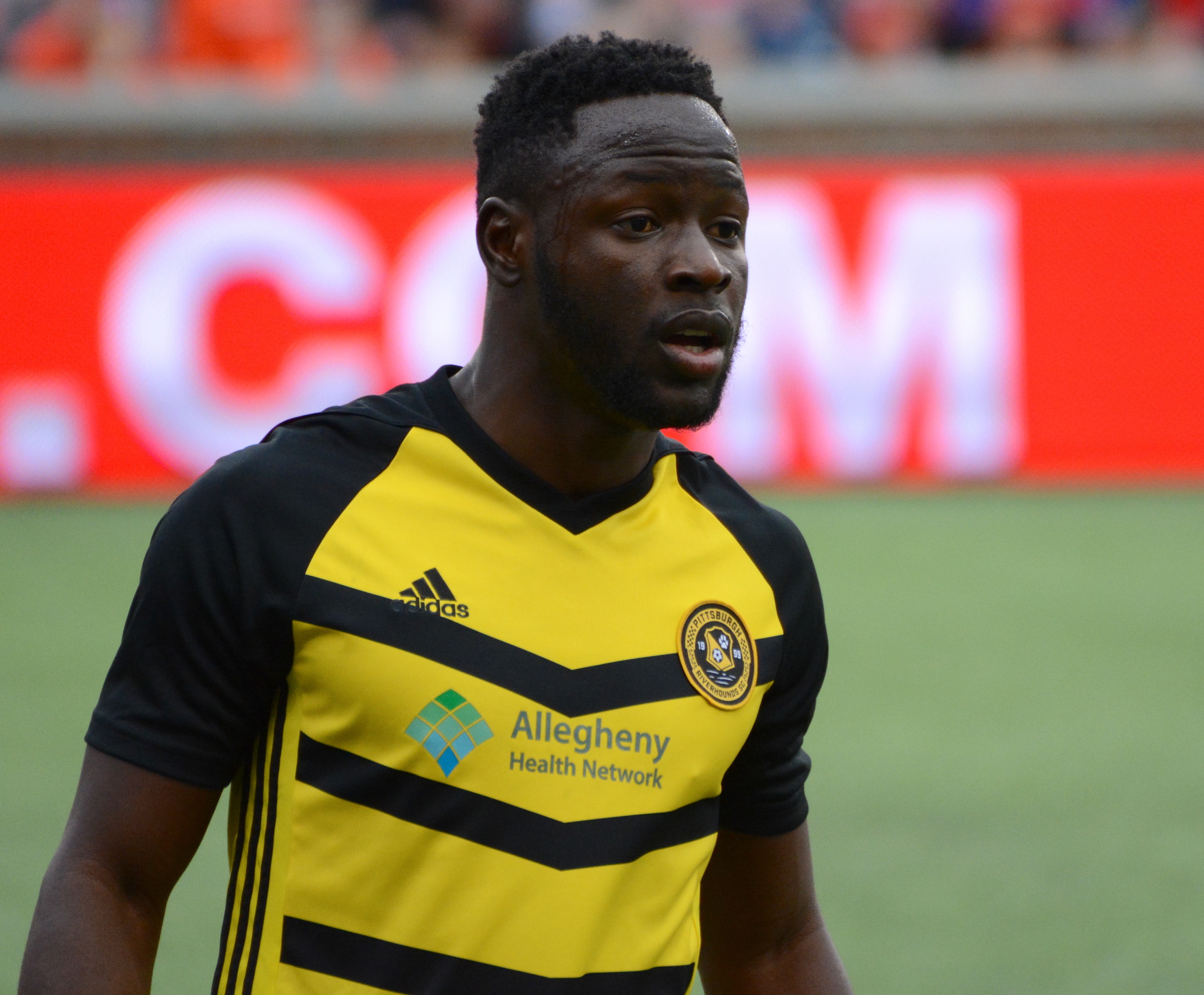 Jamaican footballer Neco Brett playing for Pittsburgh Riverhounds SC during a USL regular season match against FC Cincinnati at Nippert Stadium in Cincinnati, USA on April 21, 2018.